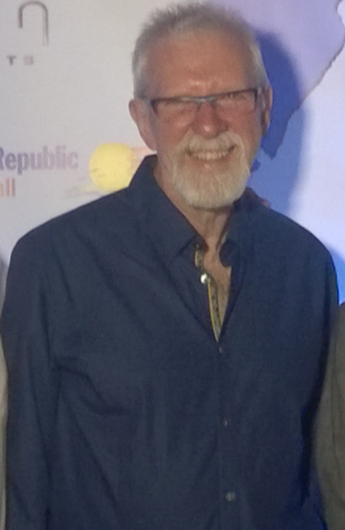 South Florida Dominican jazz festival